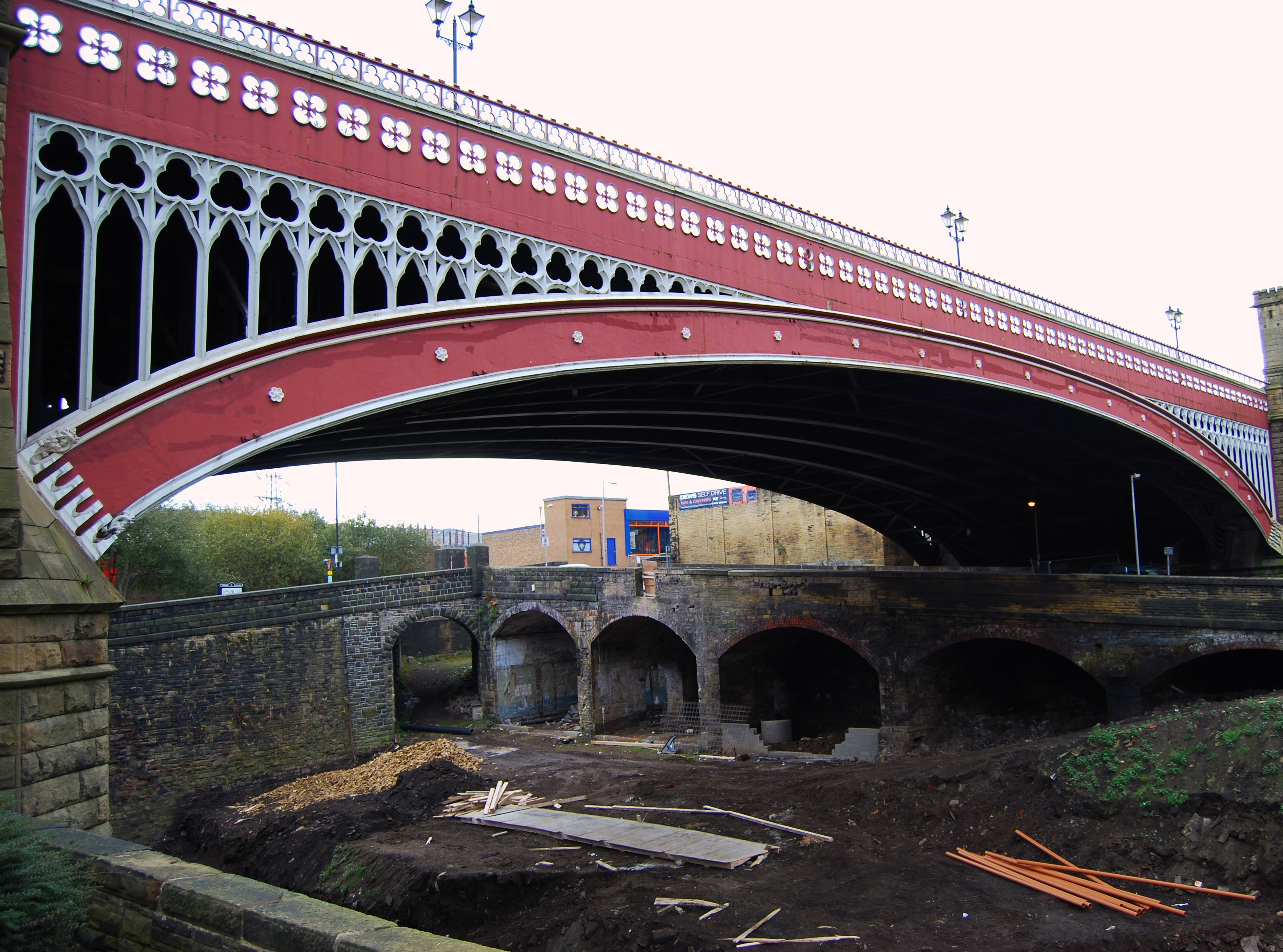 over the closed Halifax-Keighley ("Queensbury Lines") railway